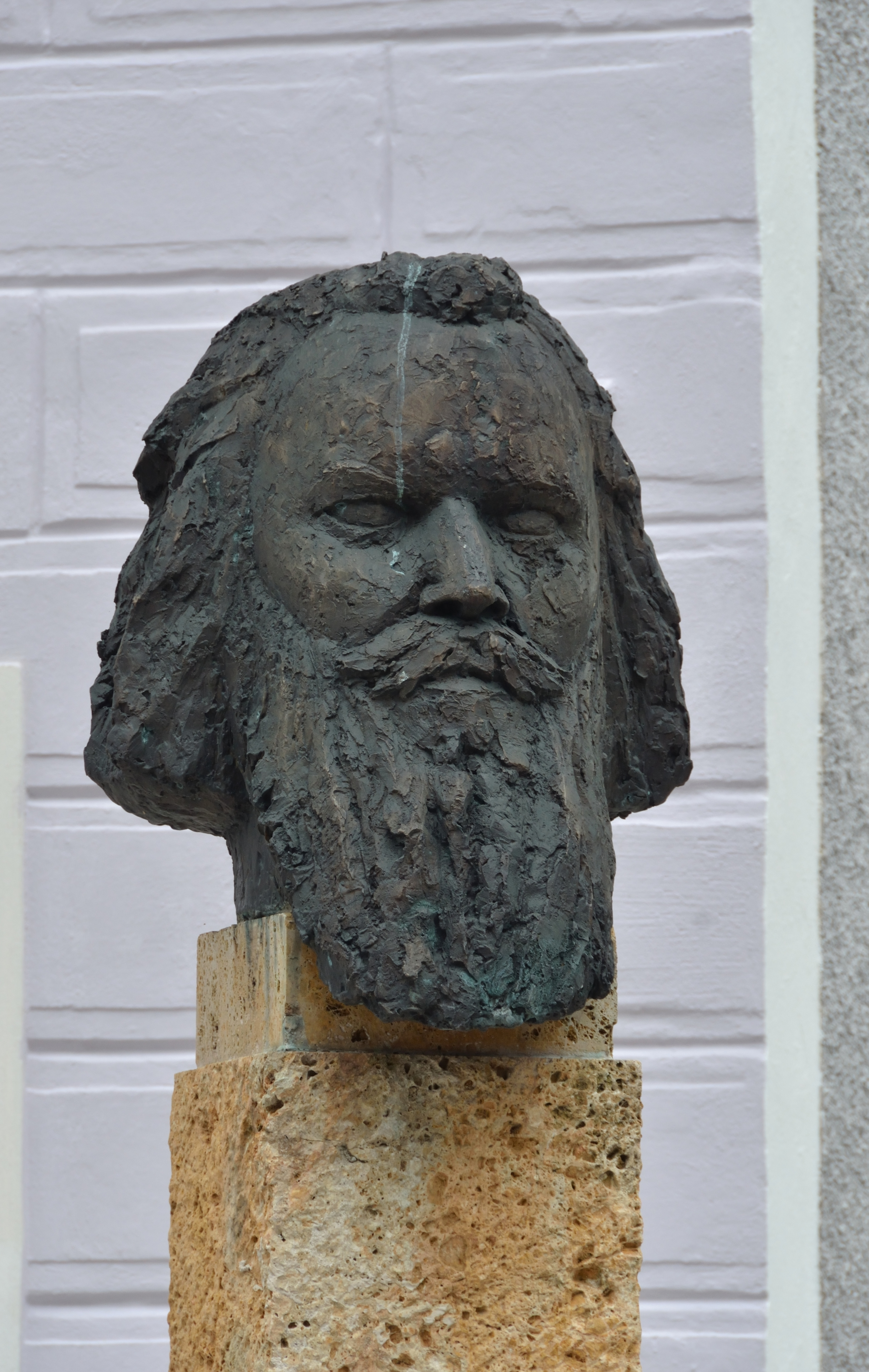 Bust of Brahms by Josef Pillhofer in front of the Brahms-Haus, Mürzzuschlag, Styria